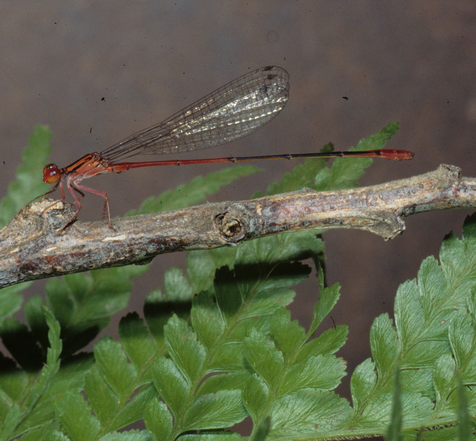 Megalagrion leptodemas, O'ahu crimson Hawaiian damselfly Photo: Dan Polhemus